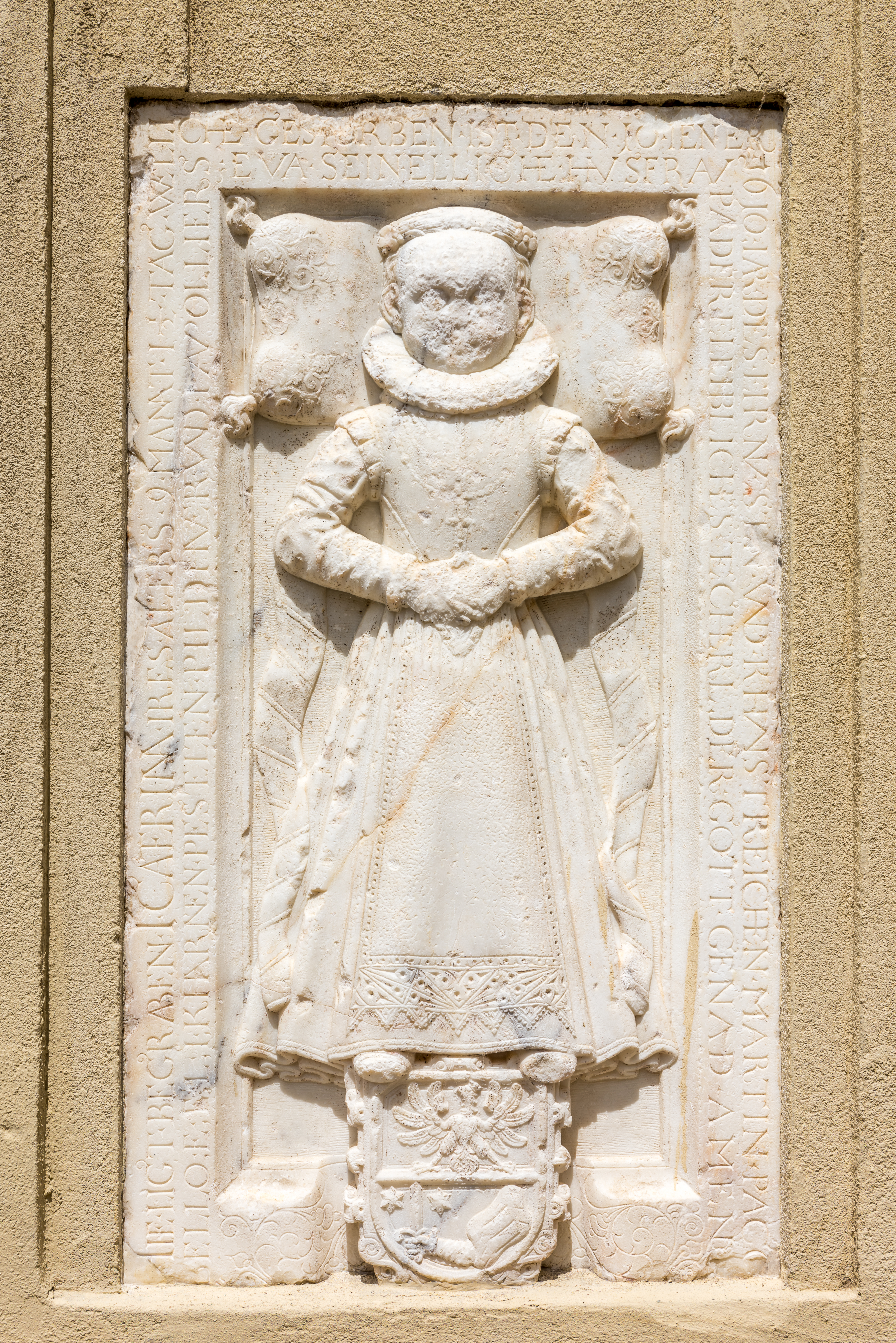 Epitaph for Katharina Pacobello (daughter of the Renaissance sculptor Martin Pacobello) at the south wall of the city parish church Saint Giles on Pfarrplatz, Klagenfurt, Carinthia, Austria, EU